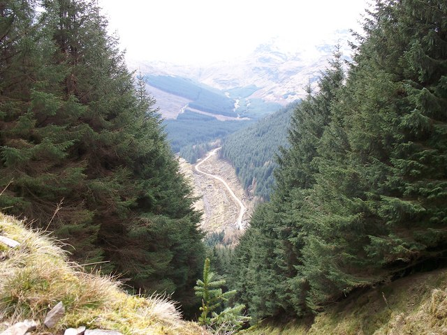 Forestry Near Loch Goil A small burn makes its way through thick afforested slopes near Loch Goil.